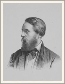 Portrait of Hans Gude (1825–1903) Alternative names Hans Gude; Hans Frederic GudeDescriptionNorwegian landscape painterromanticistfather of Nils Gudestudent of Johan Flintoe and student of Johann Wilhelm Schirmerteacher of Carl Coven Schirm, teacher of Carl Walter Leistikow, teacher of Konrad Alexander Müller-Kurzwelly, teacher of Paul Müller-Kaempff, teacher of Hans VölckerDate of birth/death 13 March 1825 17 August 1903Location of birth/death Oslo, Norway Berlin, GermanyWork period1838–1903Work location 1838-1841 Oslo1841-1847 Düsseldorf 1848-1850 Oslo 1852-1861 Düsseldorf 1862-1864 Betws-y-Coed, Wales 1864-1880 Karlsruhe1880-1903 Berlin ScotlandAuthority control : Q701669 VIAF: 74615628 ISNI: 0000 0000 6678 8321 ULAN: 500004718 LCCN: n91102499 GND: 116908629 WorldCat creator QS:P170,Q701669